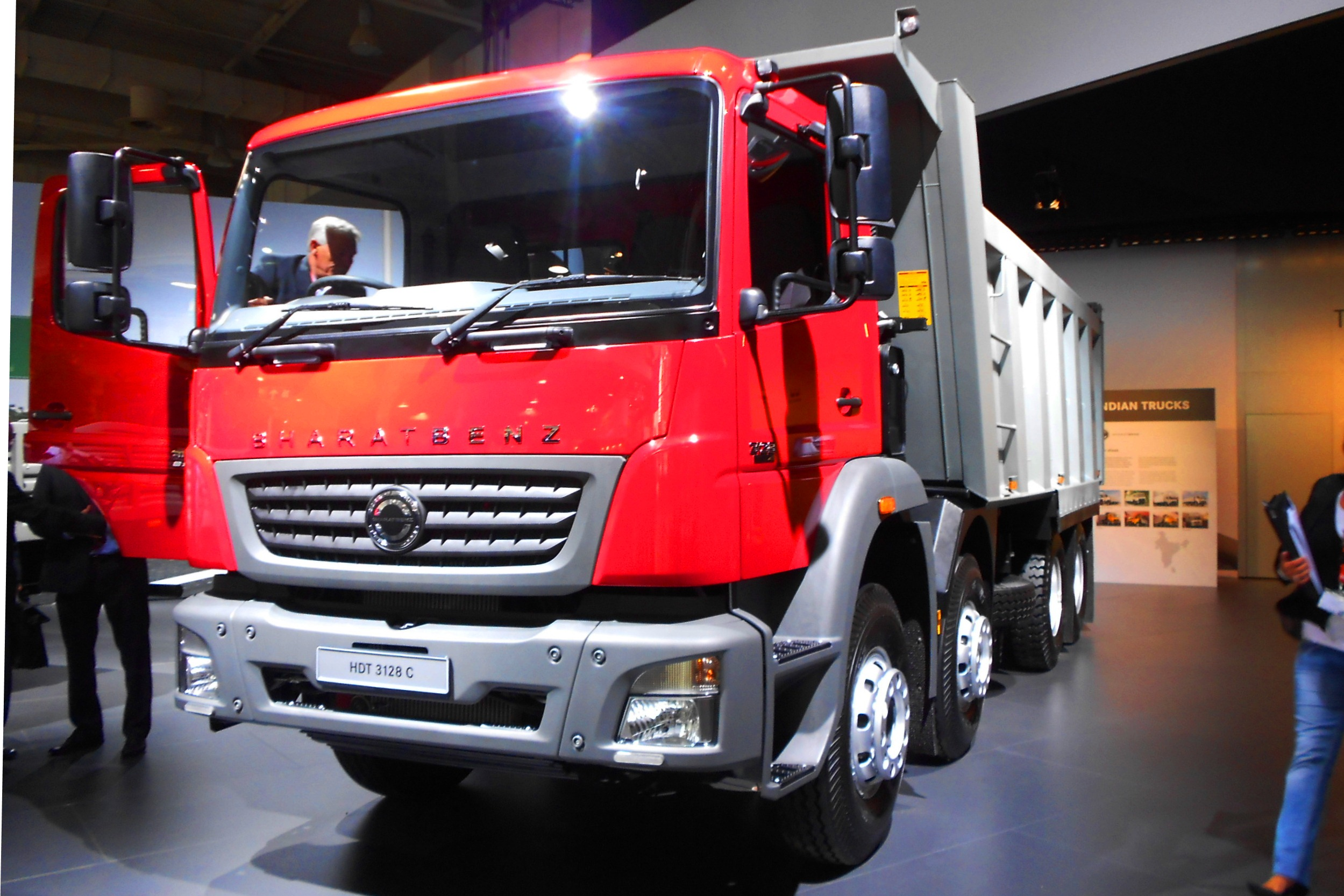 BHARATBENZ Heavy Duty Truck 3128 C Tipper. Built 2012 in India, photo taken at exhibition IAA 2012 in Hanover, Germany.